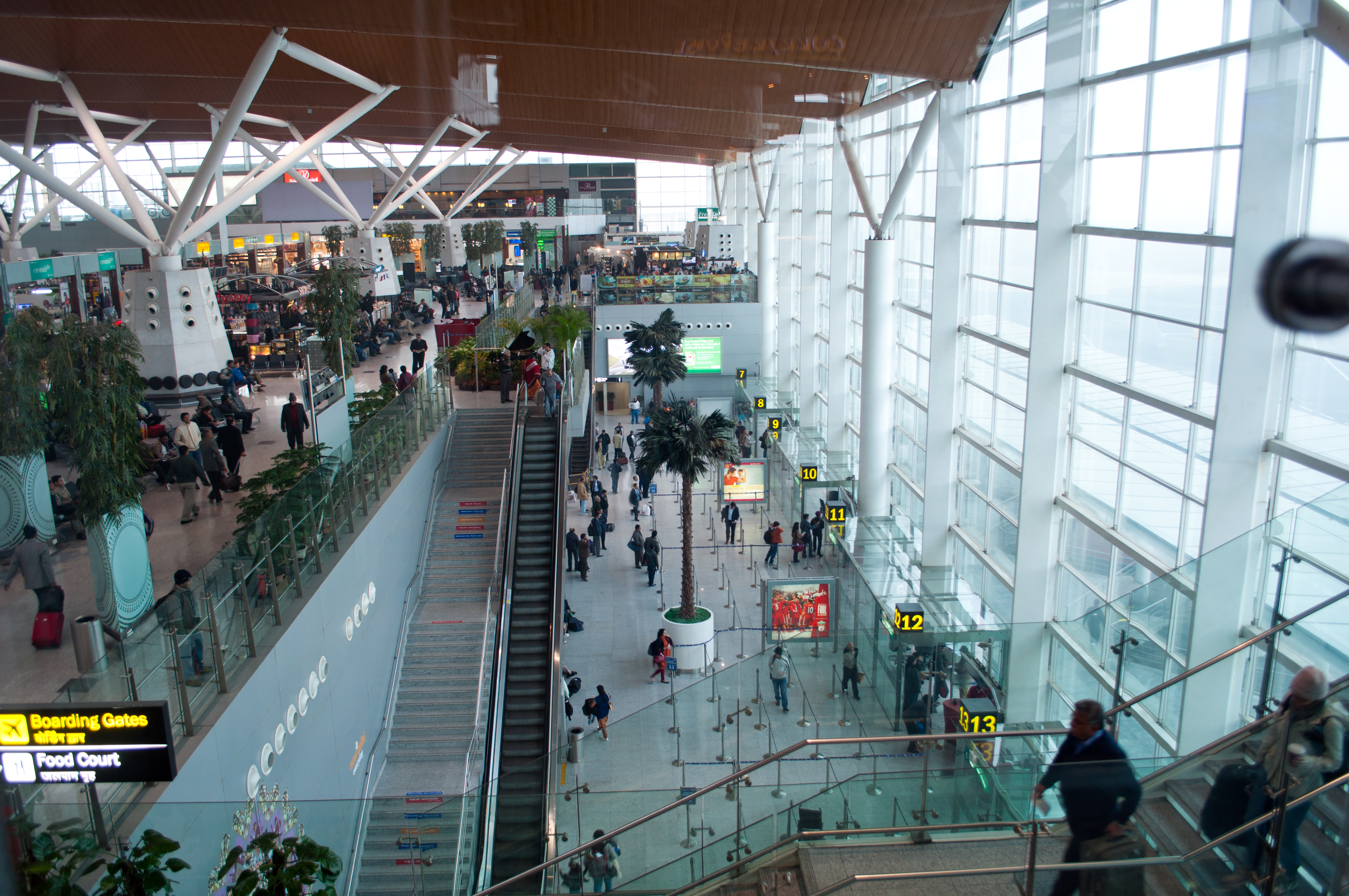 A view from the food court @ Delhi airport